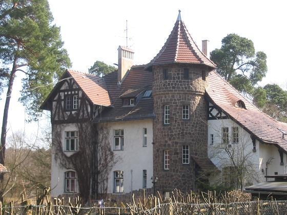 Forester's house near the nature reserve "Hundekehlefenn" in Berlin